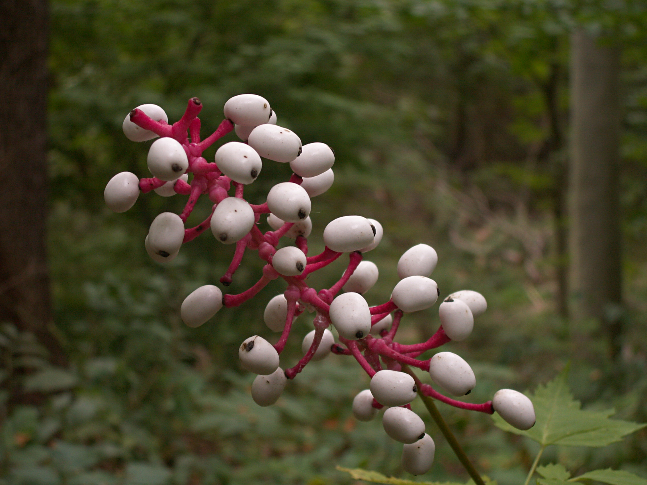 Doll’s Eyes (Actaea pachypoda) fruiting in Bird Park, Mount Lebanon, Pennsylvania